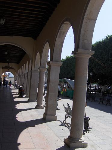 Portales en Uriangato, Guanajuato.